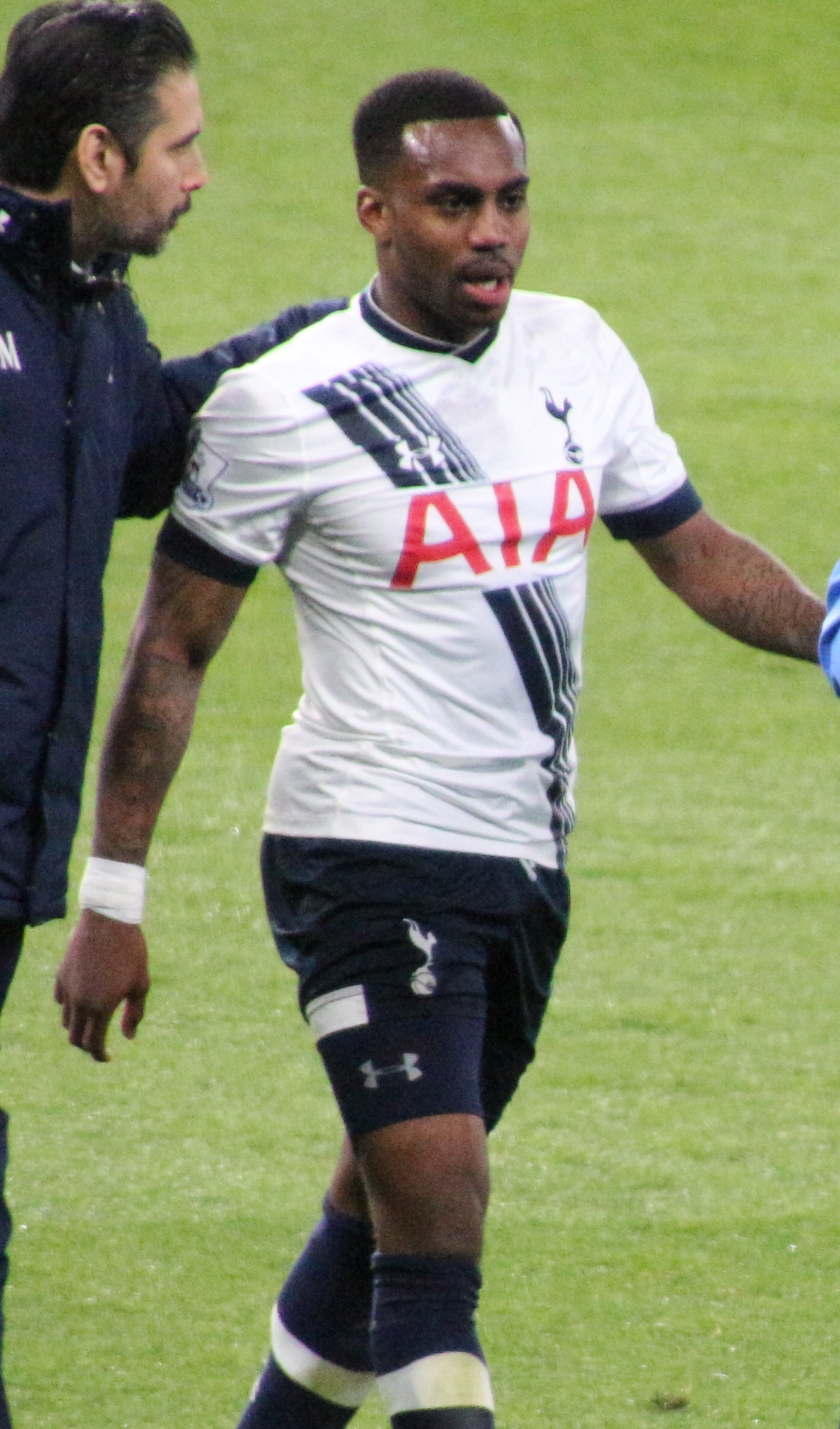 Danny Rose playing for Tottenham Hotspur against Chelsea at Stamford Bridge, London on 2 May 2016